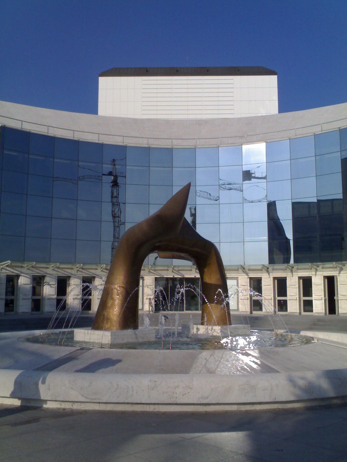 New Building of Slovak National Theatre, Bratislava